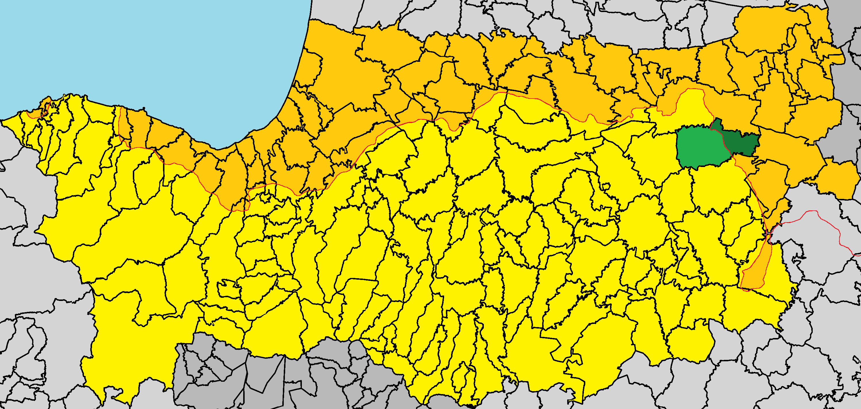 Aglandjia in Nicosia District (de jure).